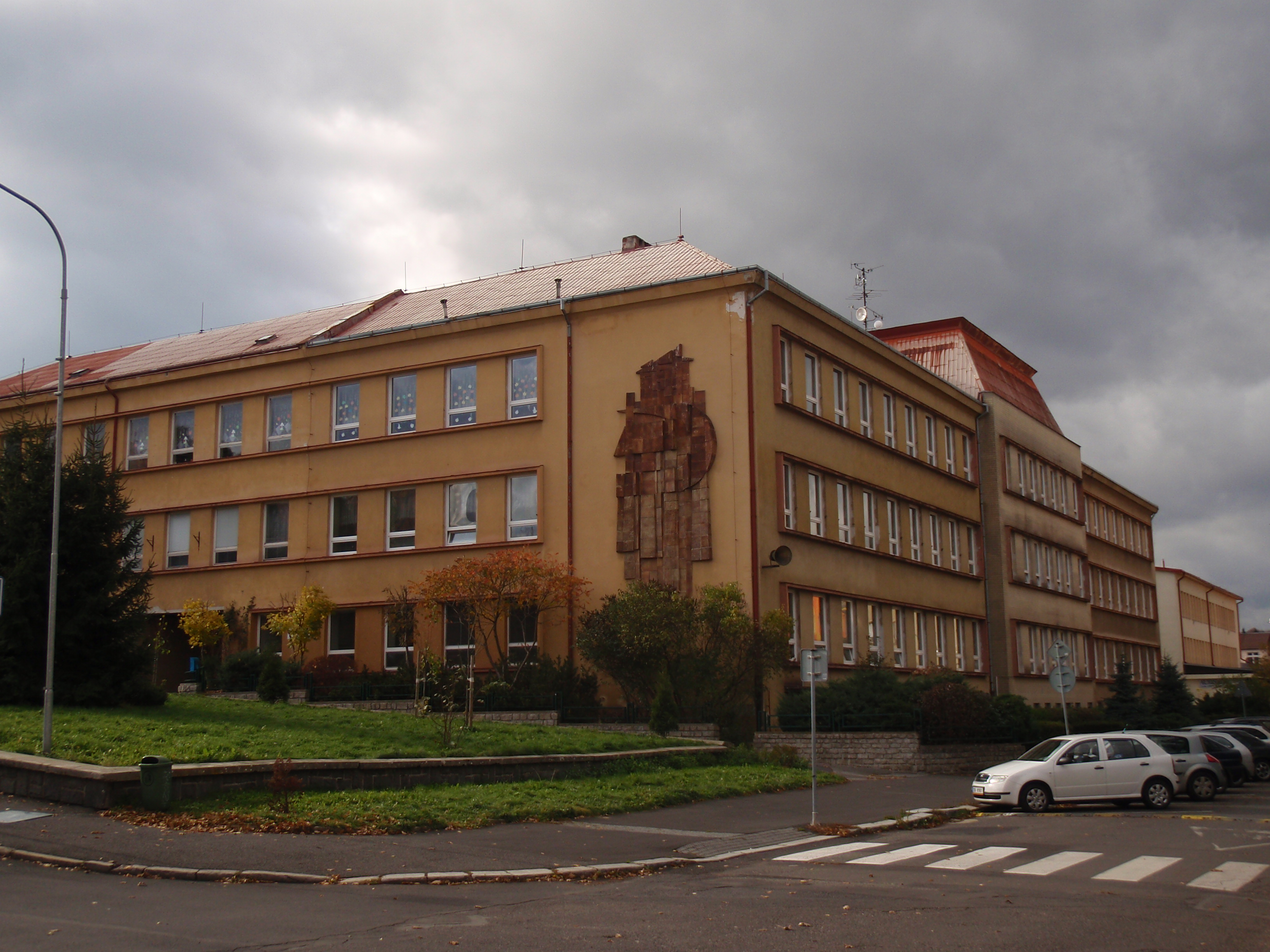 Elementary School in Stará Role